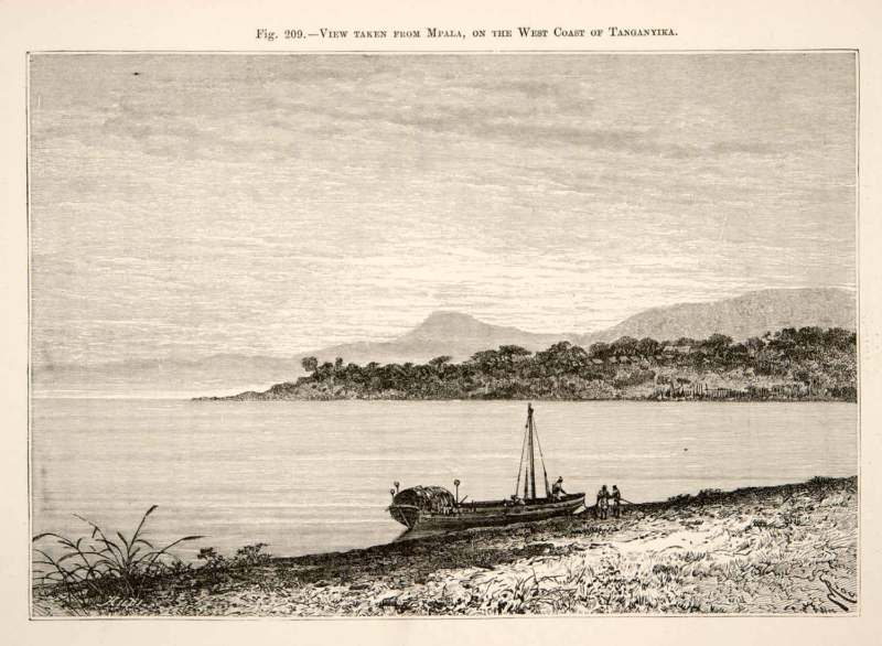 View of Lake Tanganyika from the mission station on Mpala, now in the Democratic Republic of the Congo